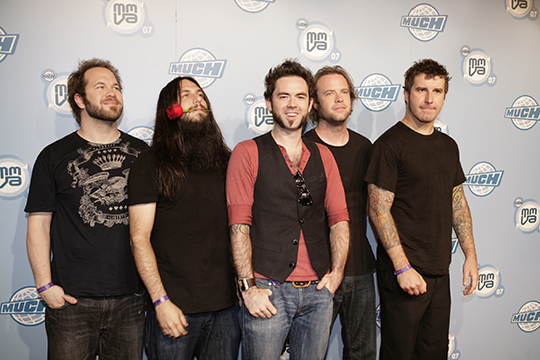 Finger Eleven was an attendee at the 2007 MuchMusic Video Awards, held the night of Sunday, June 17, 2007 in Toronto, Ontario, Canada.